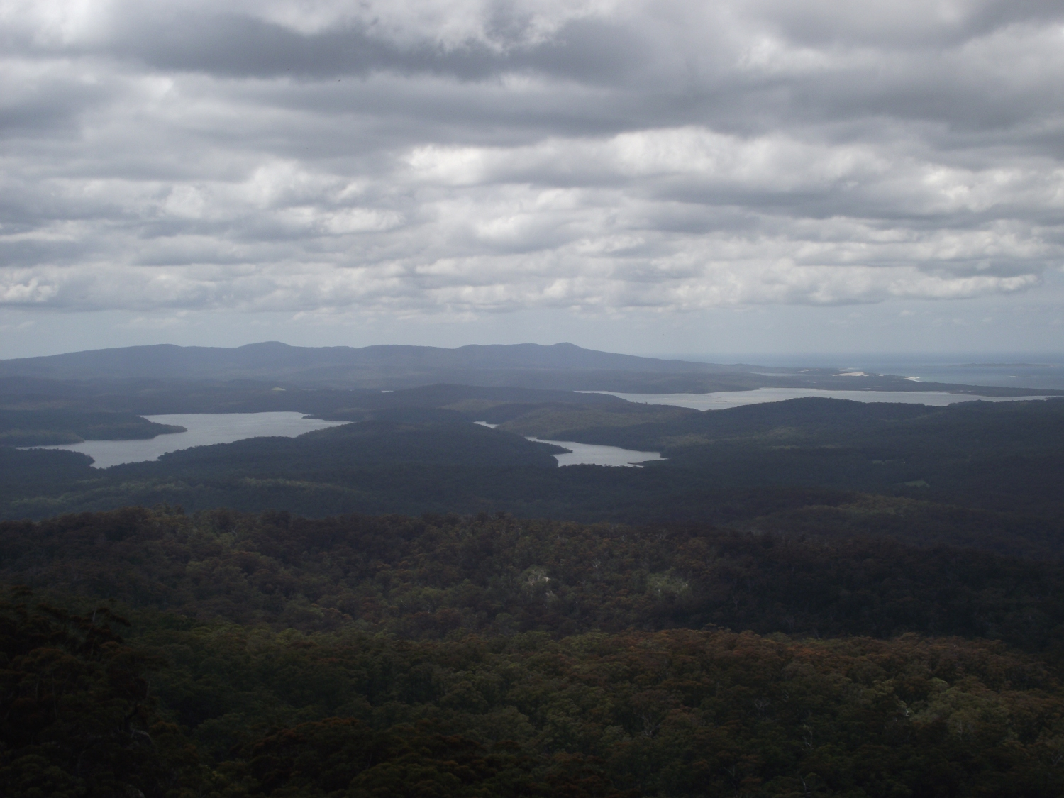 View from the summit of Genoa Peak